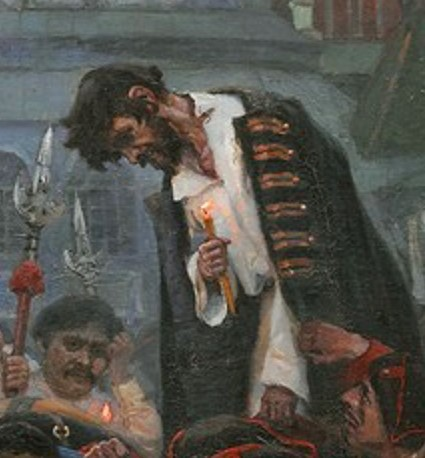 Detail of the painting "Morning of streltsy's beheading" by Vasily Surikov (1881)